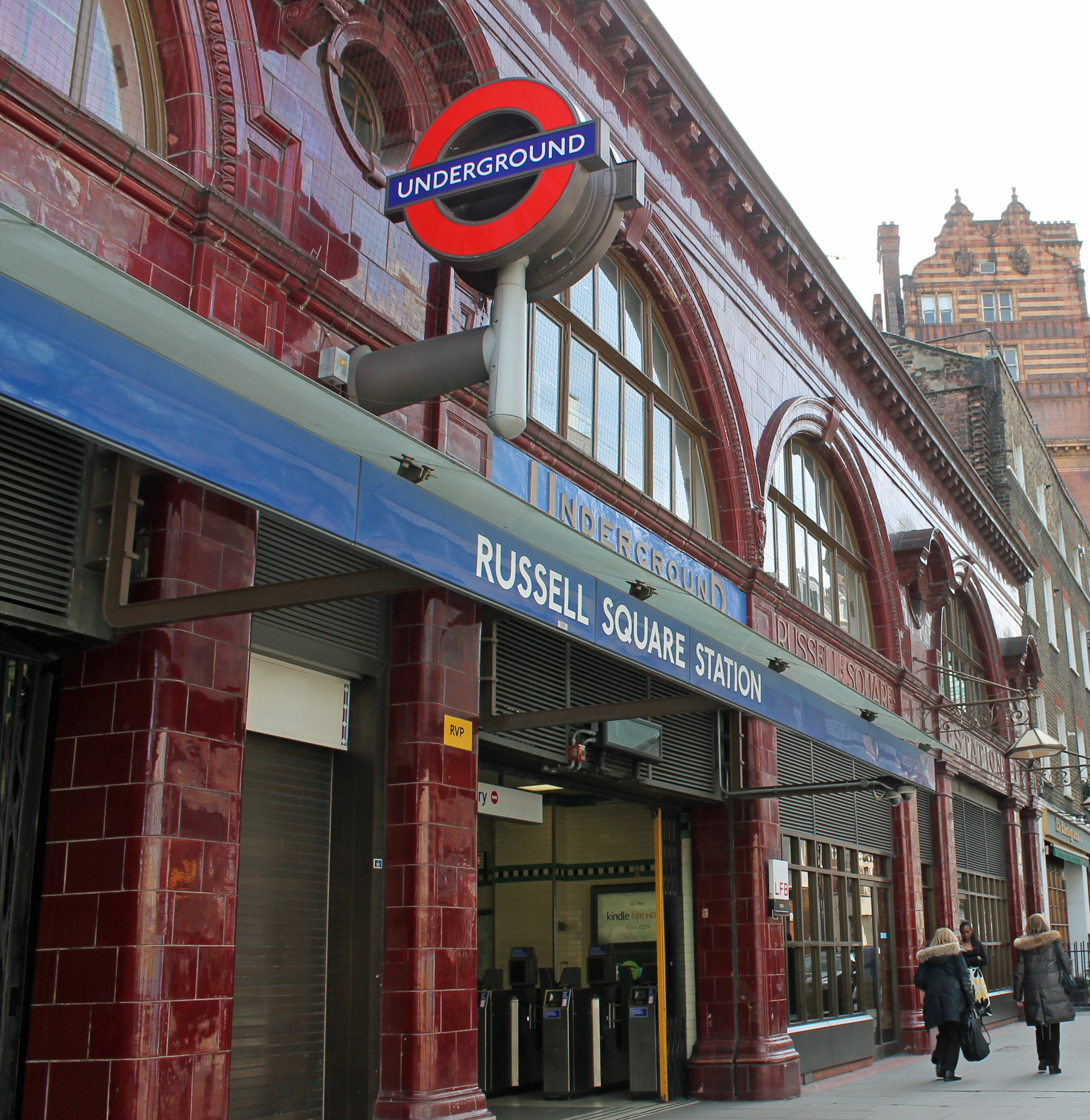 Russell Square Station, London, England